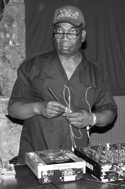 Dennis Bovell performing live on Druga godba festival in Ljubljana, Slovenia.